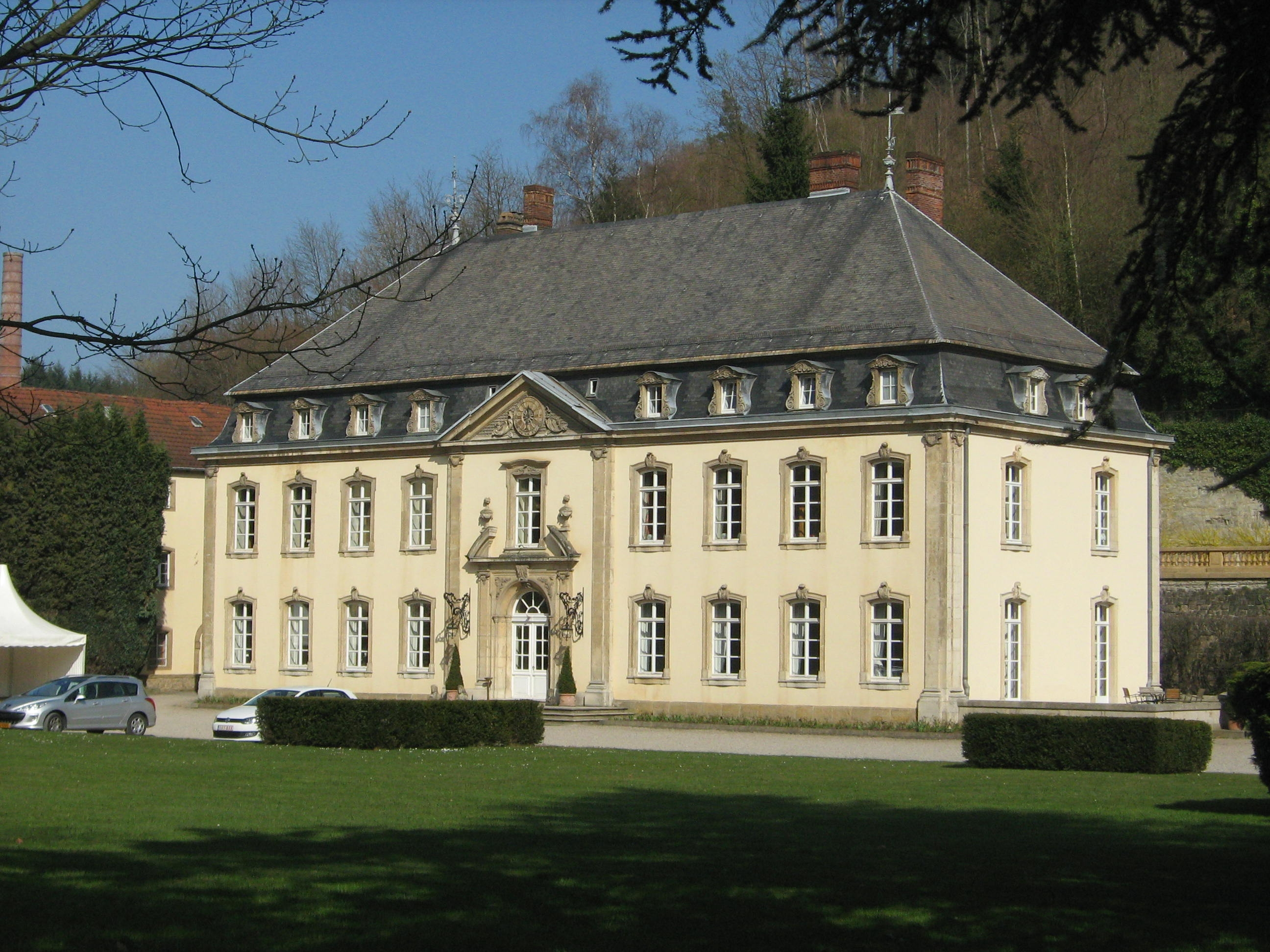 Septfontaines Castle (Château de Septfontaines) in Rollingergrund, Luxembourg City. Former residence of Villeroy and Boch.